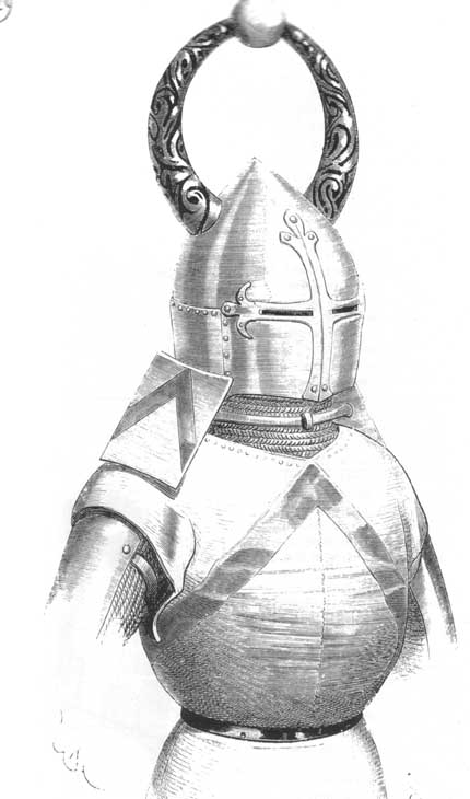 Sugar-Loaf (a kind of Great Helm) & Ailettes by by Eugène Emmanuel Viollet-le-Duc